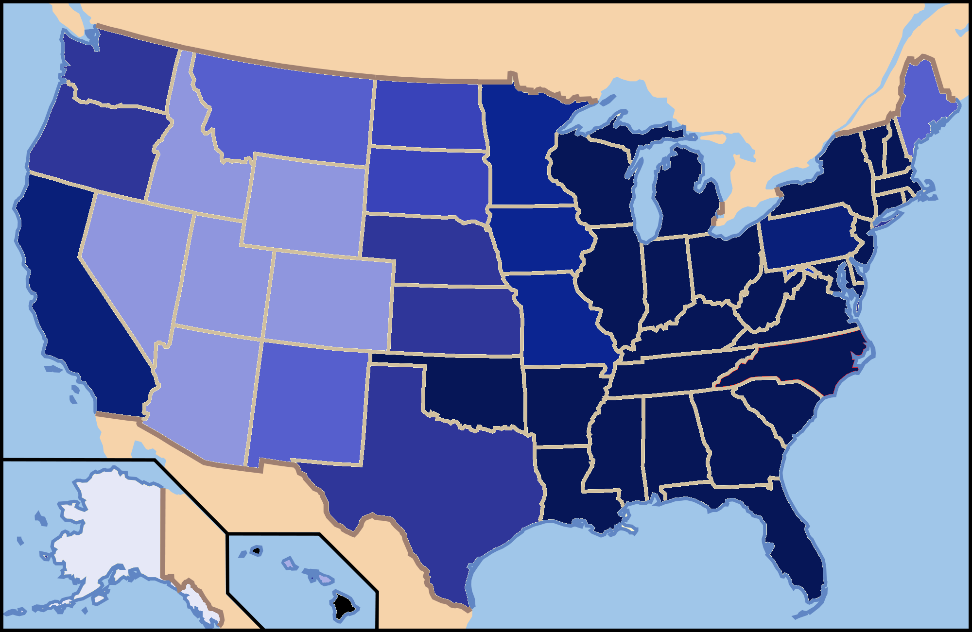 Availability of Google Street View in USA